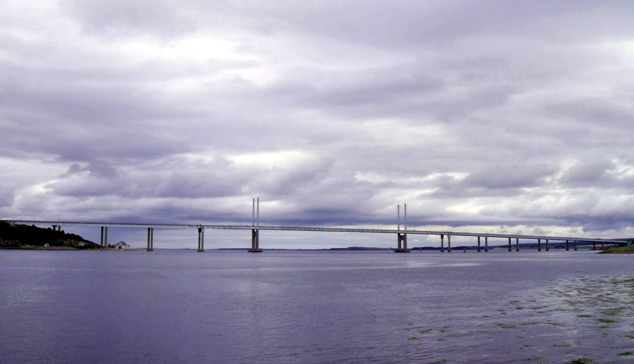 Kessock Bridge and Beauly Firth Inverness Scotland